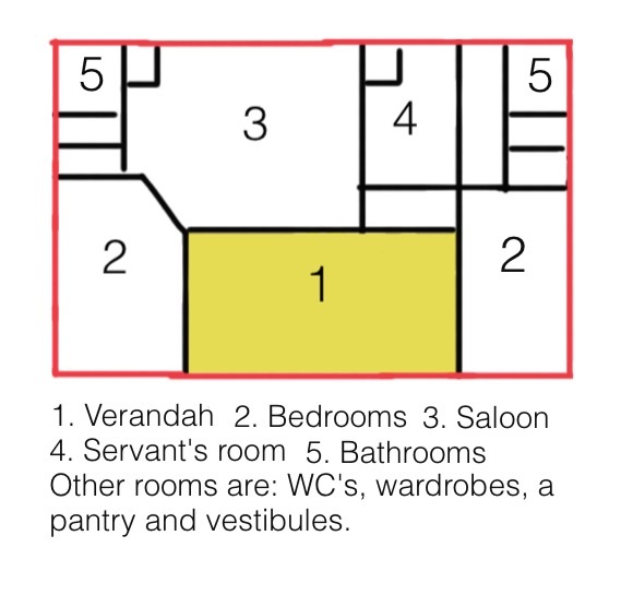 A simple plan from the starboard 'Parlour' Suite of rms Britannic